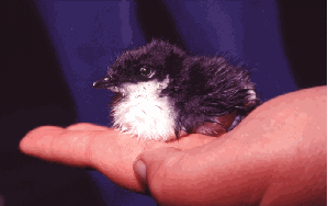 Xantus's Murrelet chick (Synthliboramphus hypoleucus).